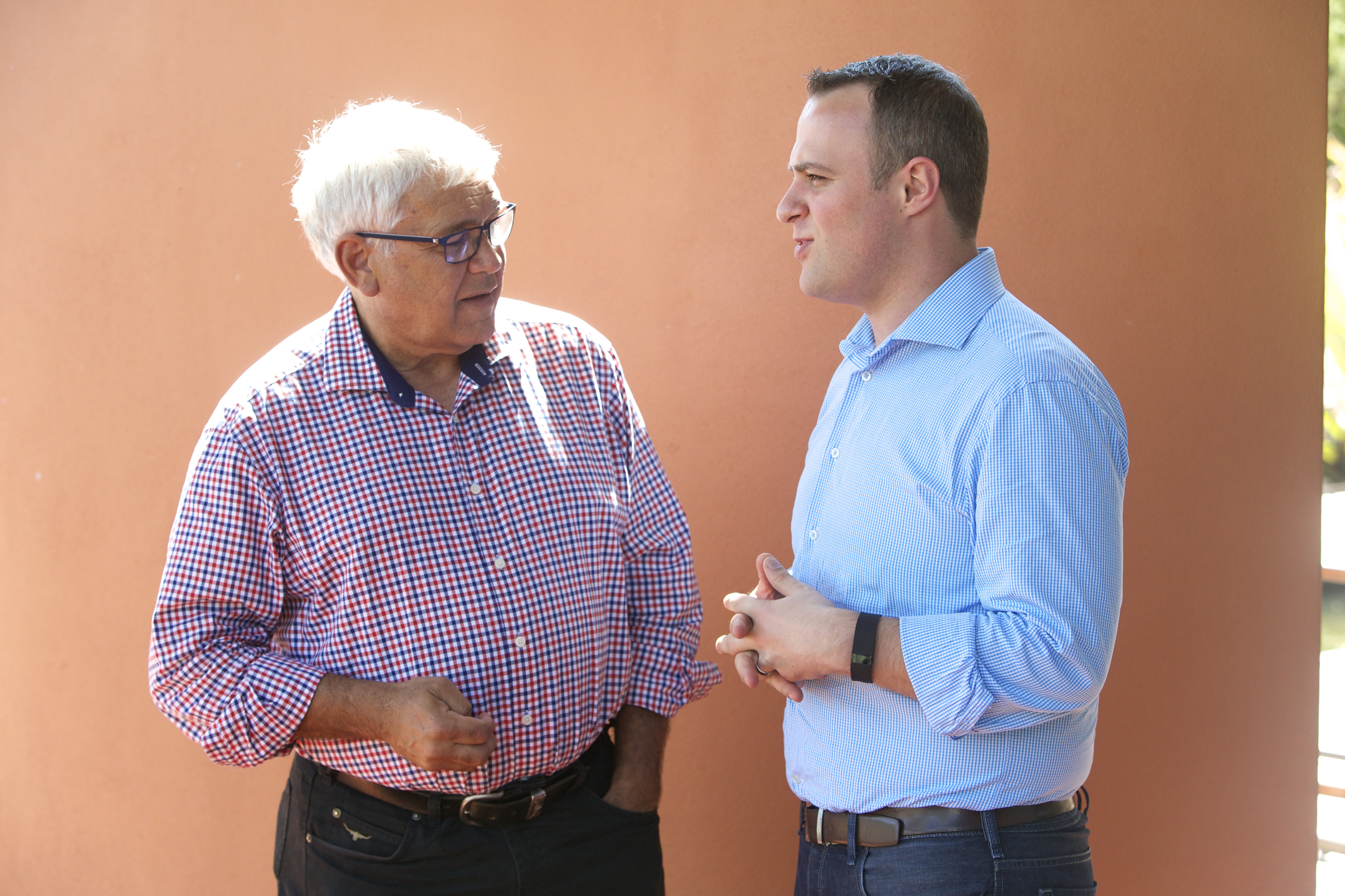 Human Rights Commissioners Mick Gooda and Tim Wilson at the 2015 Indigenous Leaders Roundtable Broome.